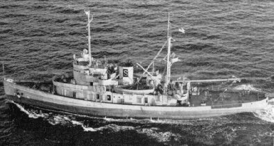 Bannock (ATF-81) underway, 26 August 1944, place unknown.